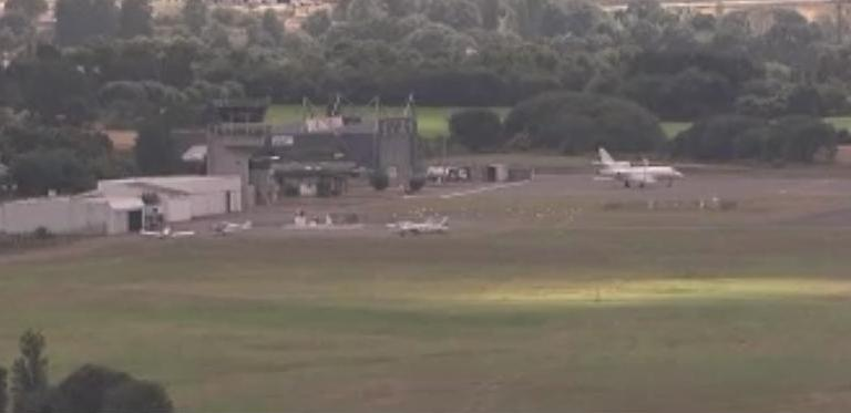 Saint-Brieuc airport in low quality